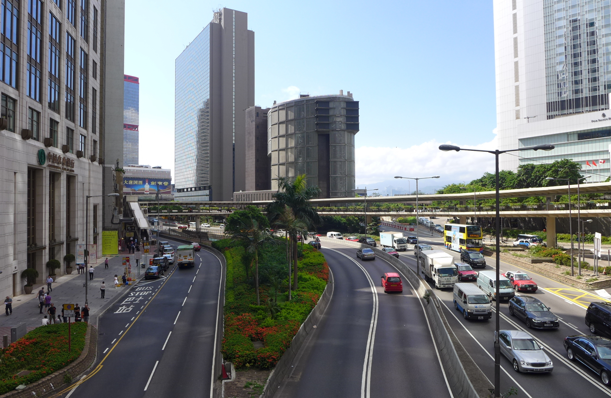 Connaught Road Central Near Sheung Wan